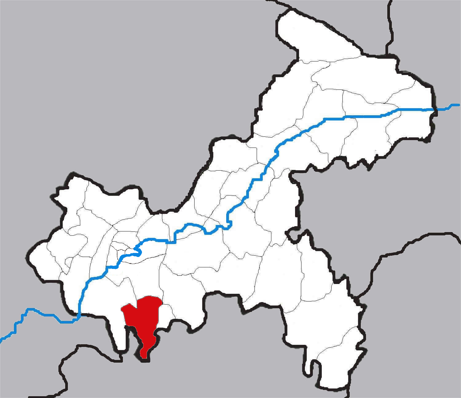 Administration maps of Chongqing, China